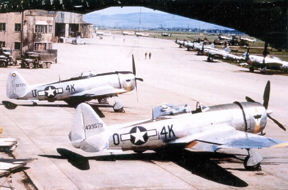 506th Fighter Squadron - P-47 Thunderbolts 1945, likely at Kelz Airfield (Y-54) or Fritzlar Airfield (Y-86), Germany